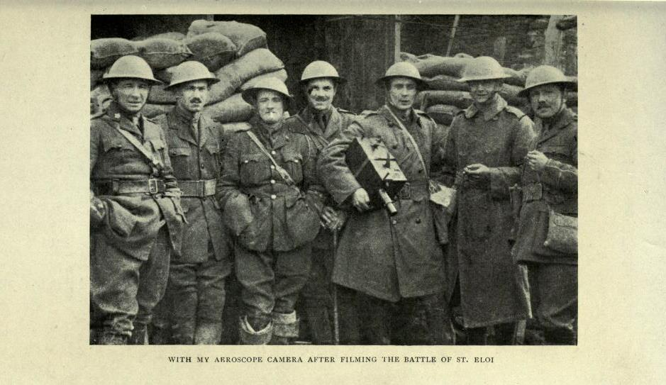 Geoffrey H. Malins after filming St Eloi battle.